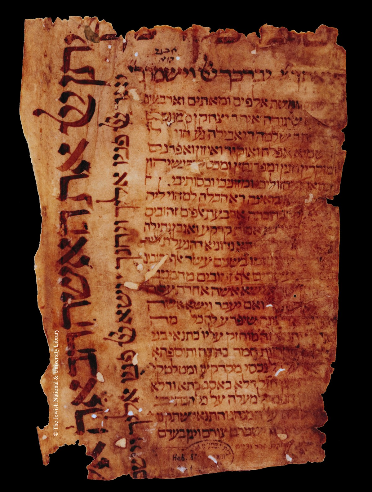 Ketubah from The Ketubot Collection of the National Library of Israel, from Segura, Spain, 1480.